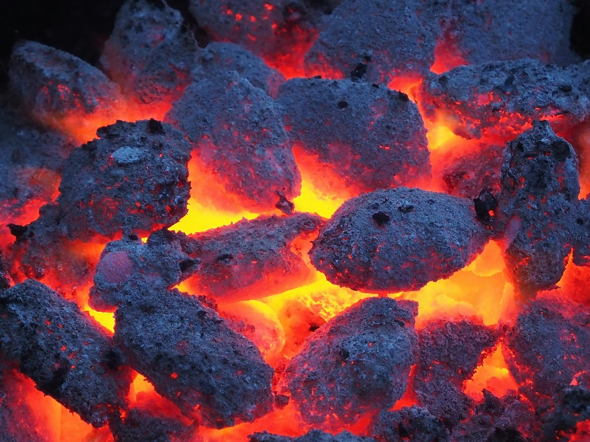 Coal, burning, fire